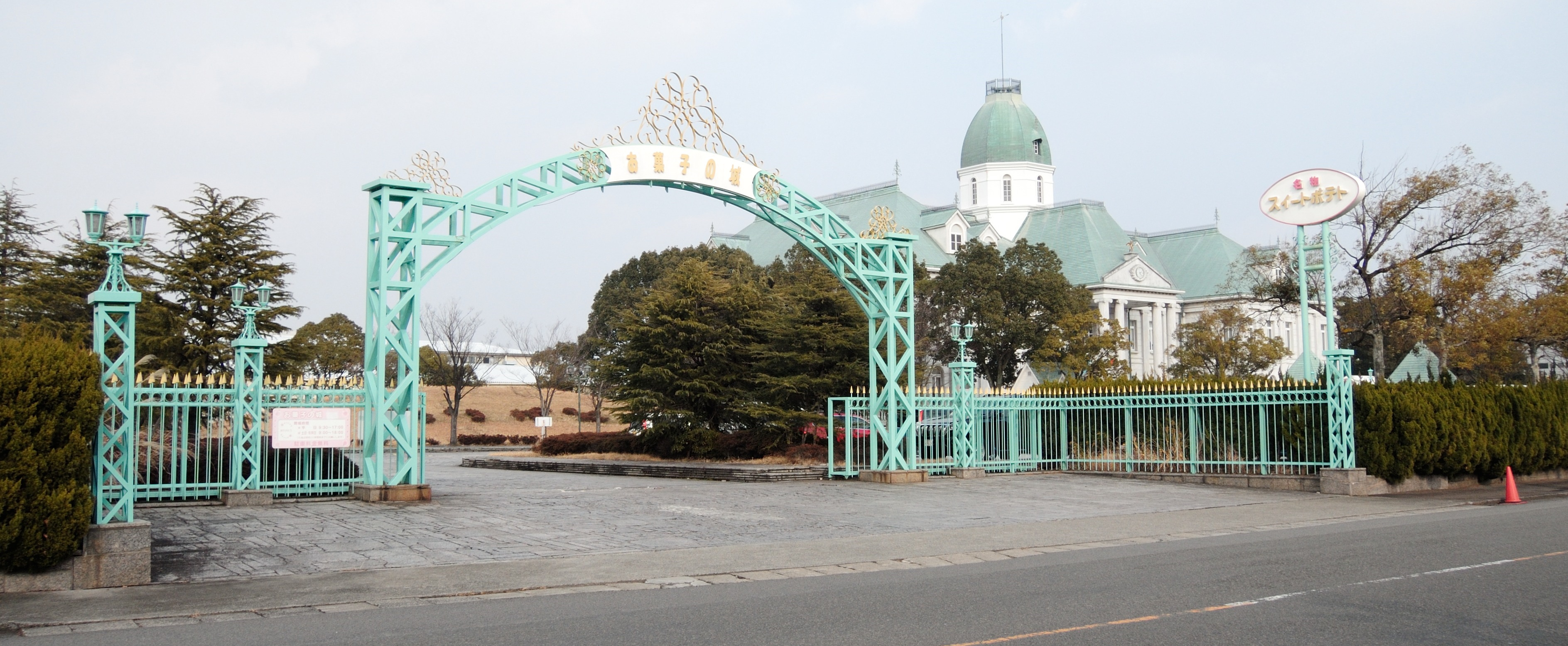 The Sweet Castle,Aichi prefecture,Japan